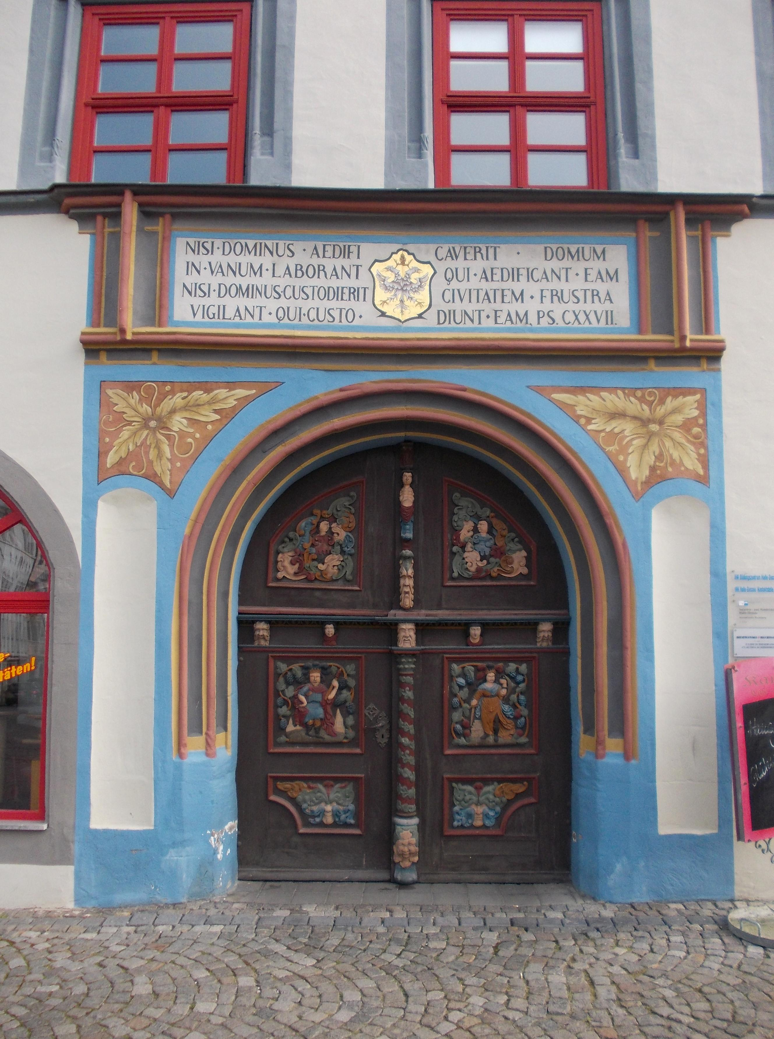 Portal of House No. 10 in the market square of Naumburg (district: Burgenlandkreis, Saxony-Anhalt)